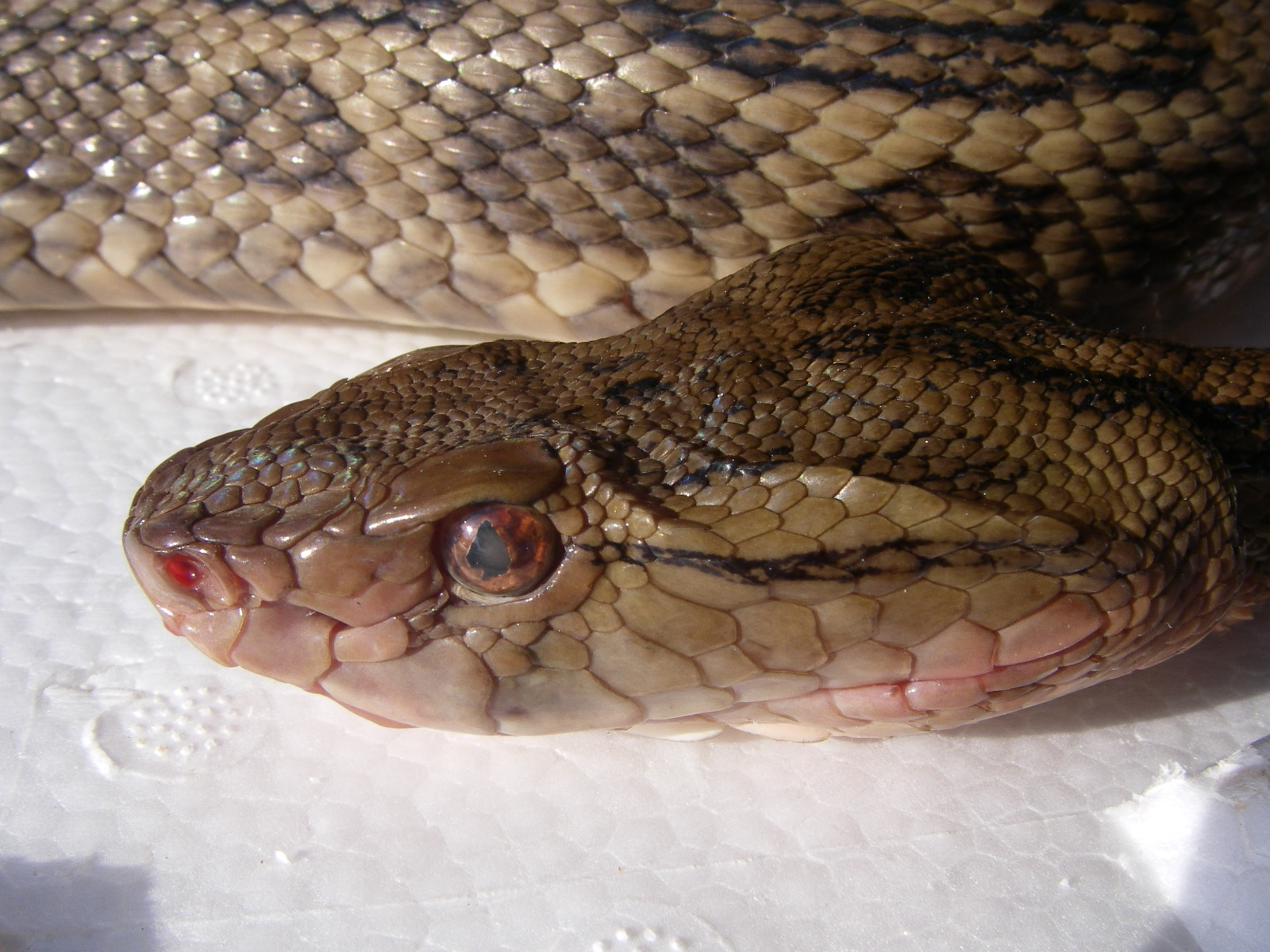 A habu (Trimeresurus flavoviridis), a pit viper found in the Ryukyu Islands, Japan.